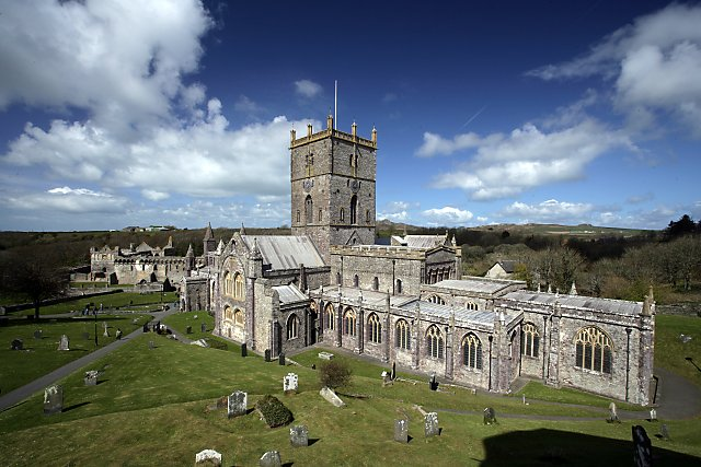 St David’s Cathedral and Bishop’s Palace St David’s Cathedral, a site of worship since around 600 AD.